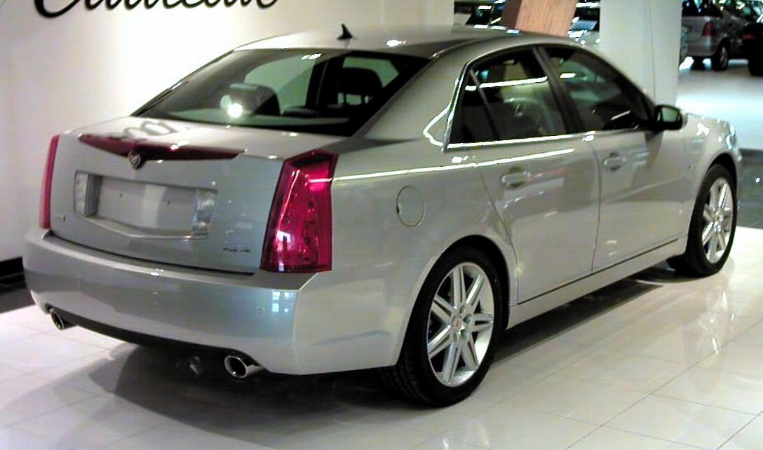 Cadillac BLS. Photo taken by User:Boivie in Jönköping 7 April 2006